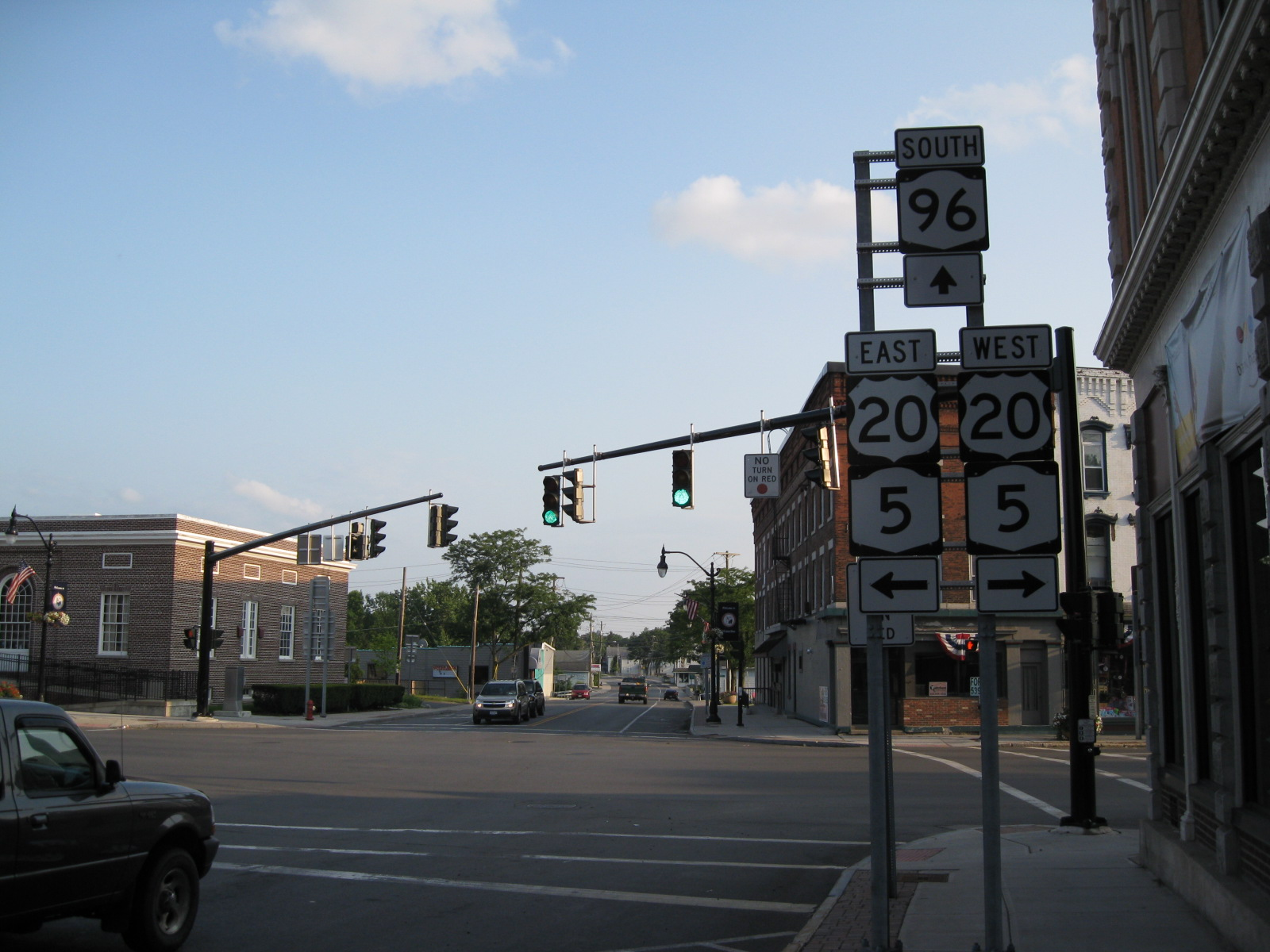 Southbound on New York State Route 96 at Main Street (U.S. Route 20 and New York State Route 5) in the village of Waterloo.